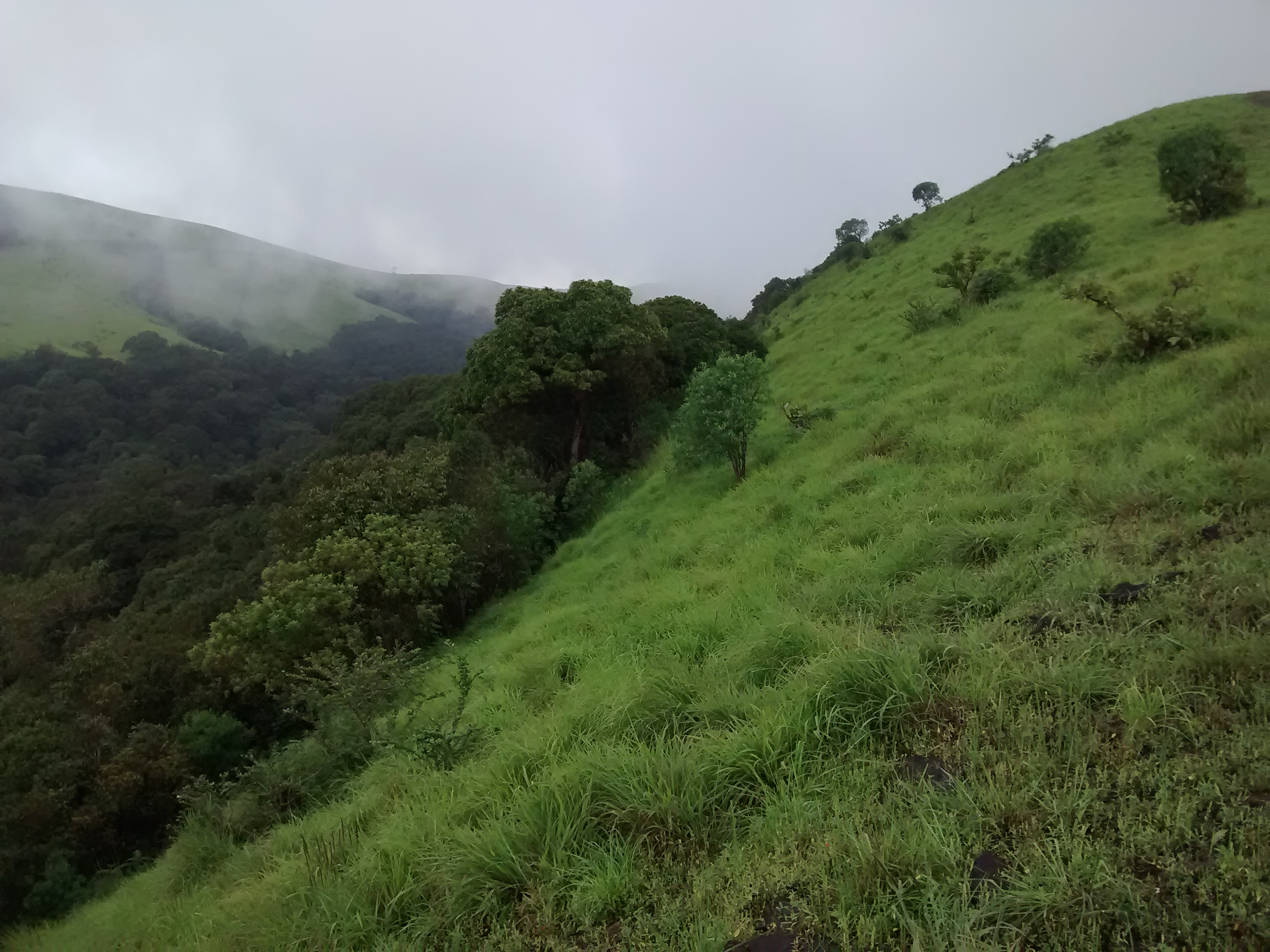 On top of the Kodachadri moutains.